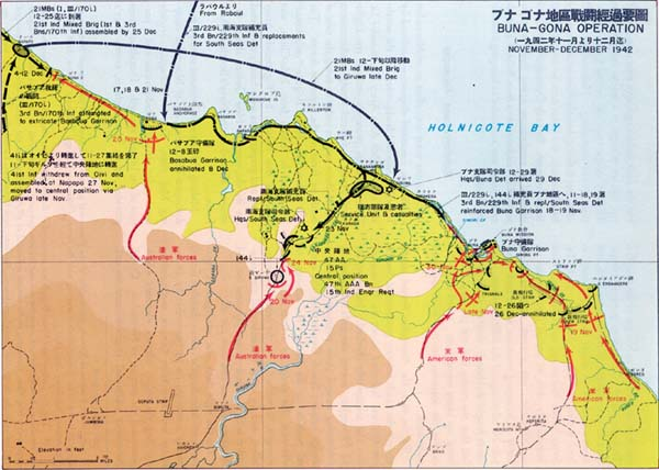 Map depicting the movement of Japanese forces during the Battle of Buna-Gona